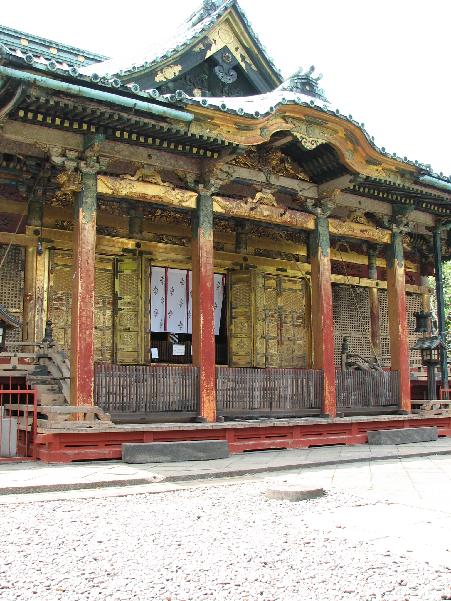 the haiden of Ueno Tōshōgū, Taitō, Tōkyō, Japan